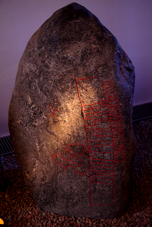 Runestone from Snoldelev, East Zealand, Denmark, now housed at the National Museum of Denmark. Translation of the runic inscription provided by the National Museum: Gunvald's stone, son of Roald, thul in Salløv (on the salvmounds). According to the display: The inscription is from the 8th century with some older runeforms (distinguished as H, A). Probably thul is a speaker, a reciter (?). The rune stone was found circa 1775 and brought to Copenhagen 1811. Archaeological investigations 1986 revealed an early Viking-Age cemetery, which seems to have had connections with the rune stone. The swastika and the triskele of three drinking horns are of the same date as the inscription, but the big wheel-cross is Bronze Age.